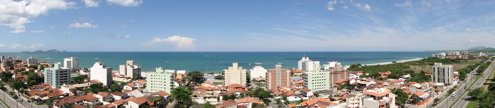 Panoramic view of Cavaleiros beach in Macaé city, with the island of St. Anne on the left and Mount St. John in the distance on the right